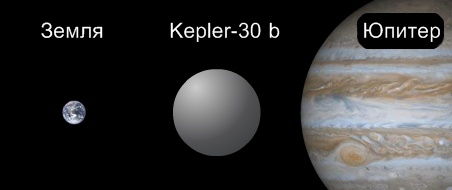 Comparative sizes of Earth, Kepler-30 b and Jupiter.